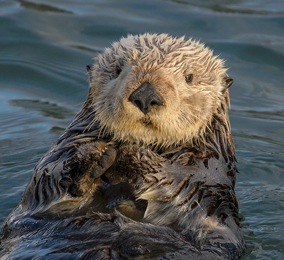 A close-up of a sea otter, taken in Morro Bay, California in 2016.